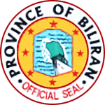 Provincial seal of Biliran, Philippines